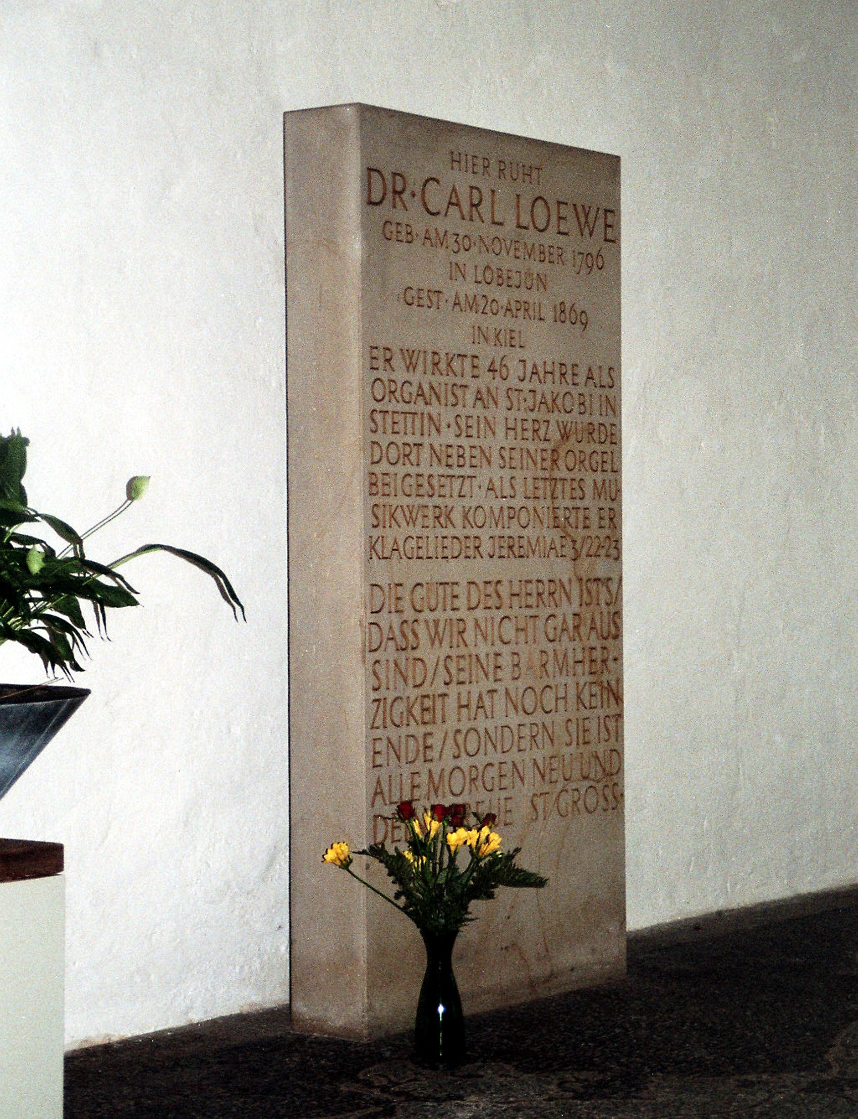 Kiel, St. Nicolai Church, the graveslab of Carl Loewe This is a photograph of an architectural monument. .1